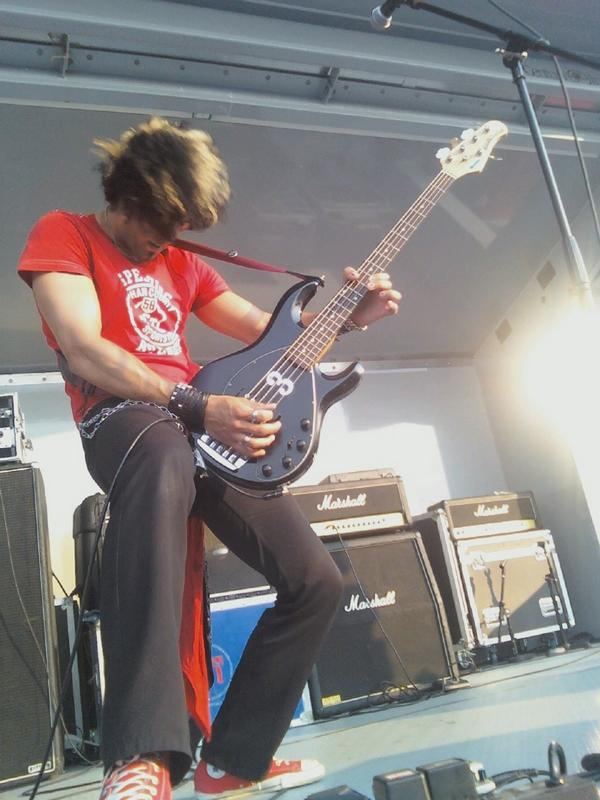 Aristotle Dreher Performing live